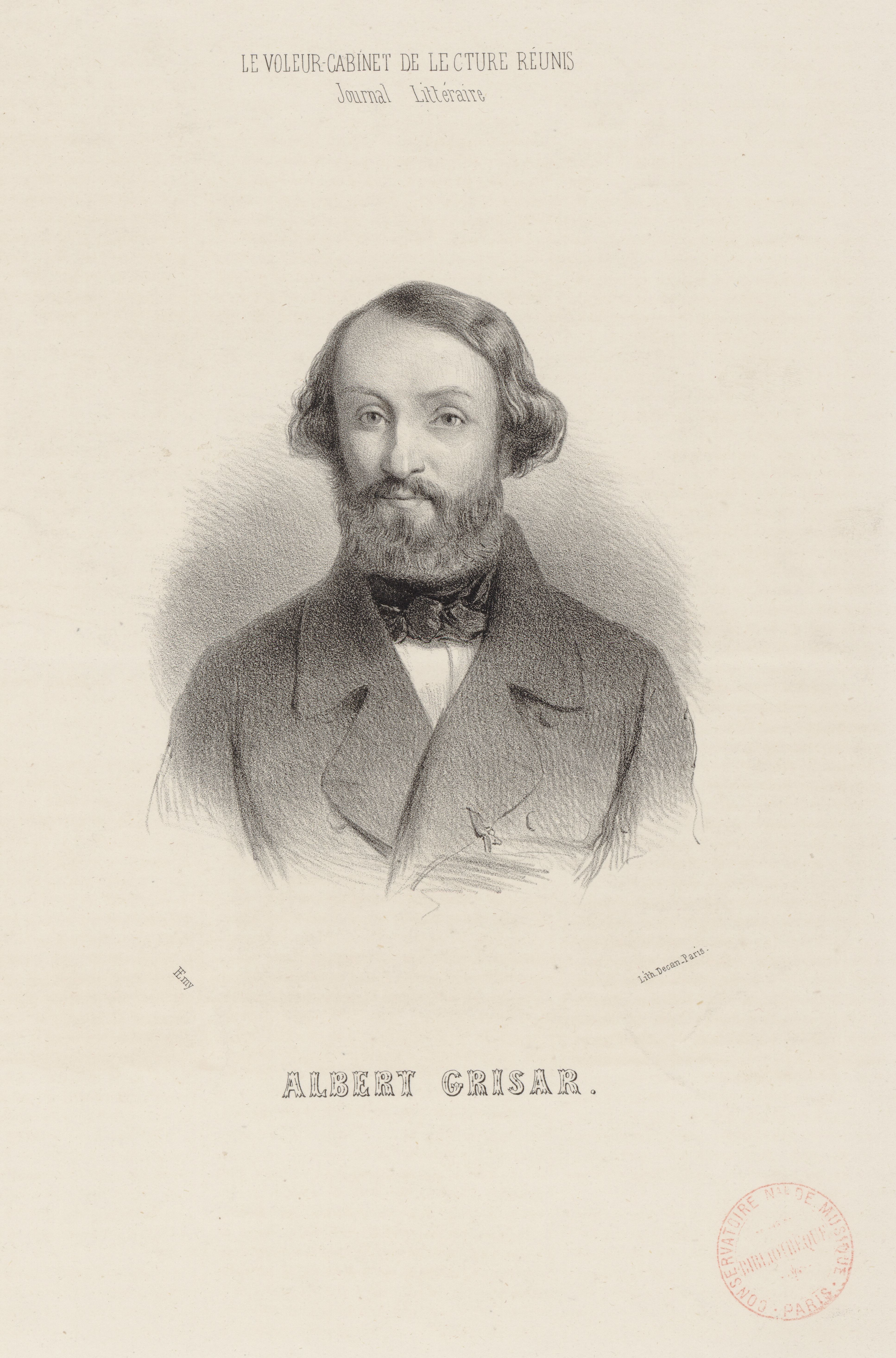 Henri Hemy: Portrait Albert Grisar, lithography, 13 x 11 cm, Paris: Decan, c. 1850